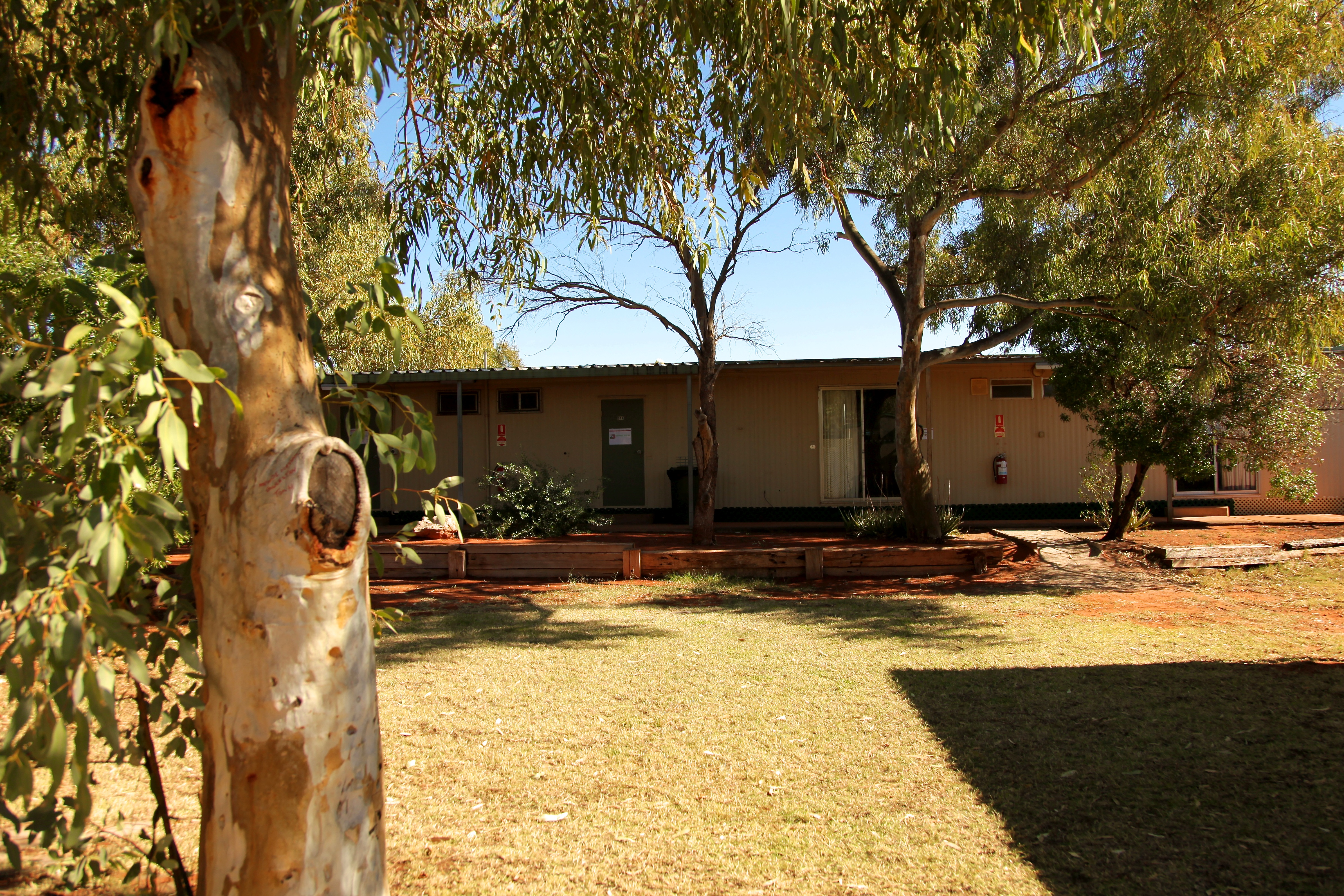 Leonora Altrenative Place of Detention